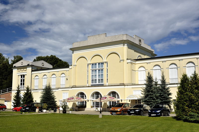 The Border Castle in Hlohovec, a village in Břeclav District, Czech Republic.